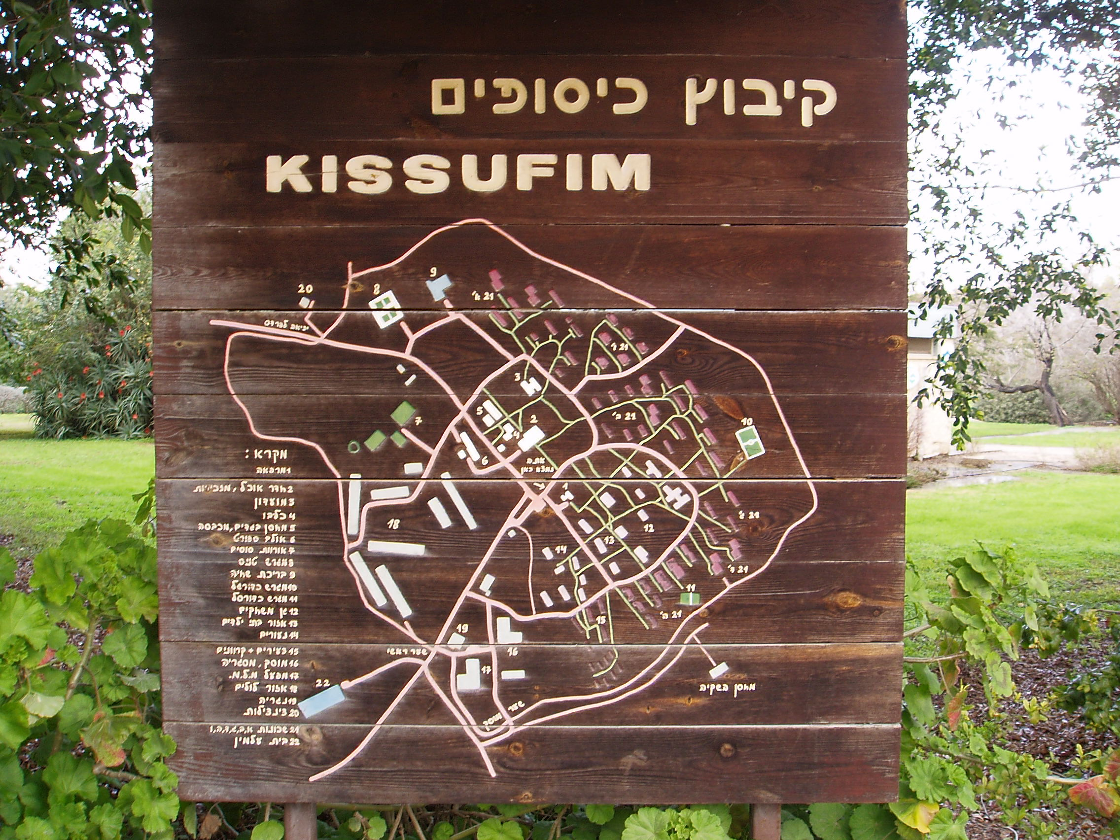 Map of Kibbutz Kissufim. Note that there is Commons:Commons:Freedom of panorama in Israel.